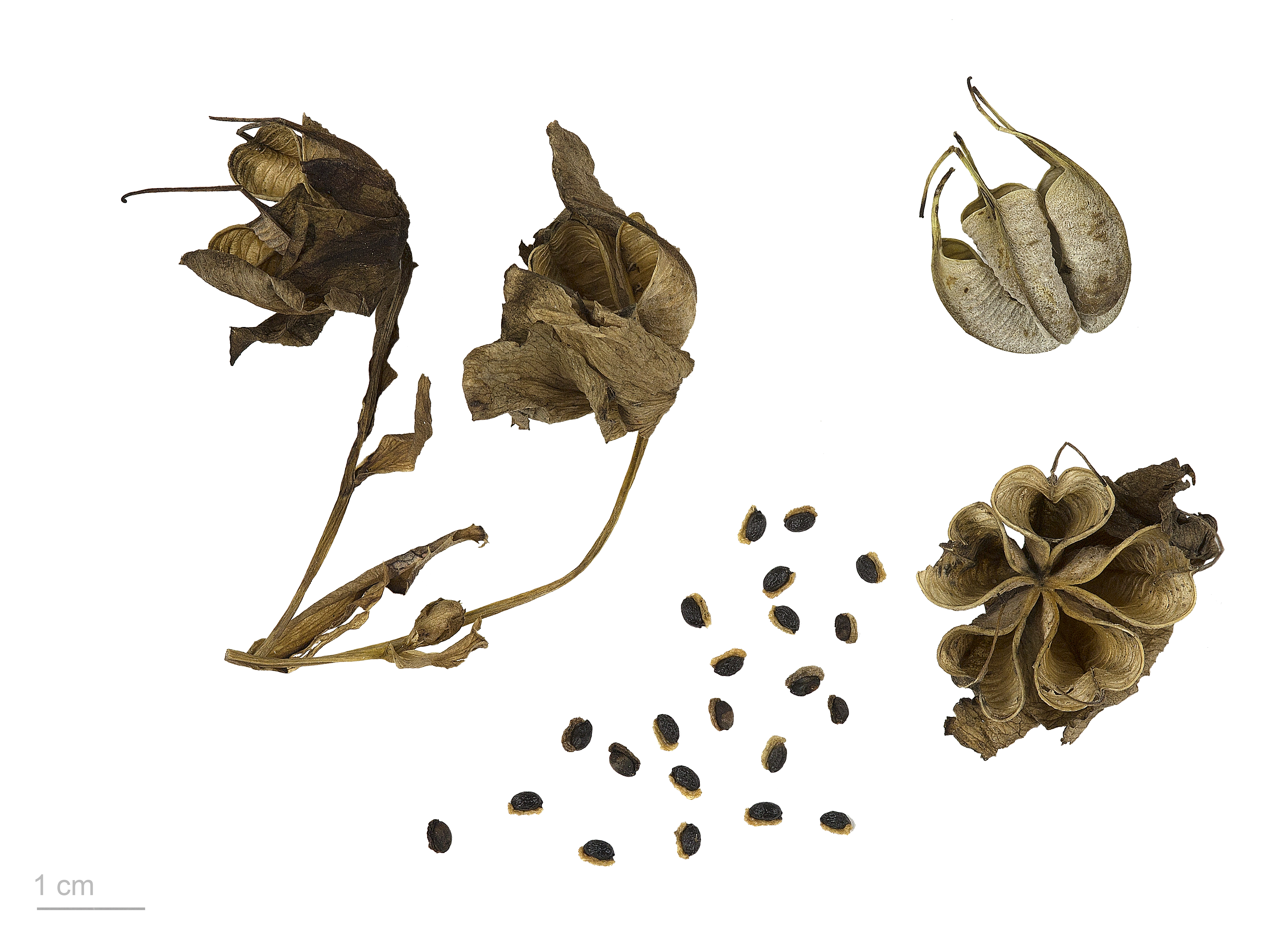 Helleborus argutifolius, Corsican hellebore, seeds